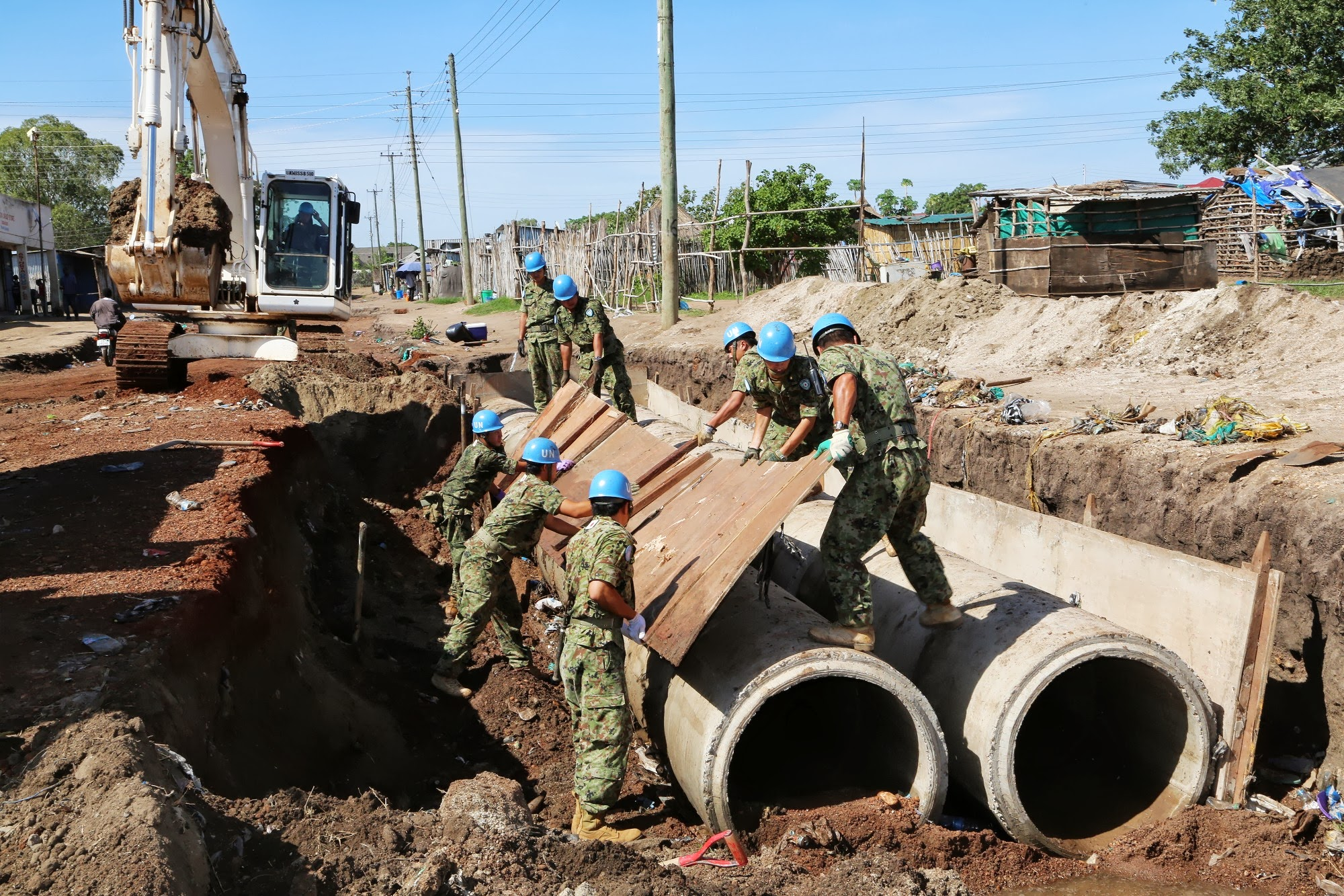 Title 25.5.2 Juba City, Nabari District Community Road Improvement Album International Peace Cooperation Activities (and Defense Cooperation etc.) United Nations Mission in South Sudan Road Maintenance